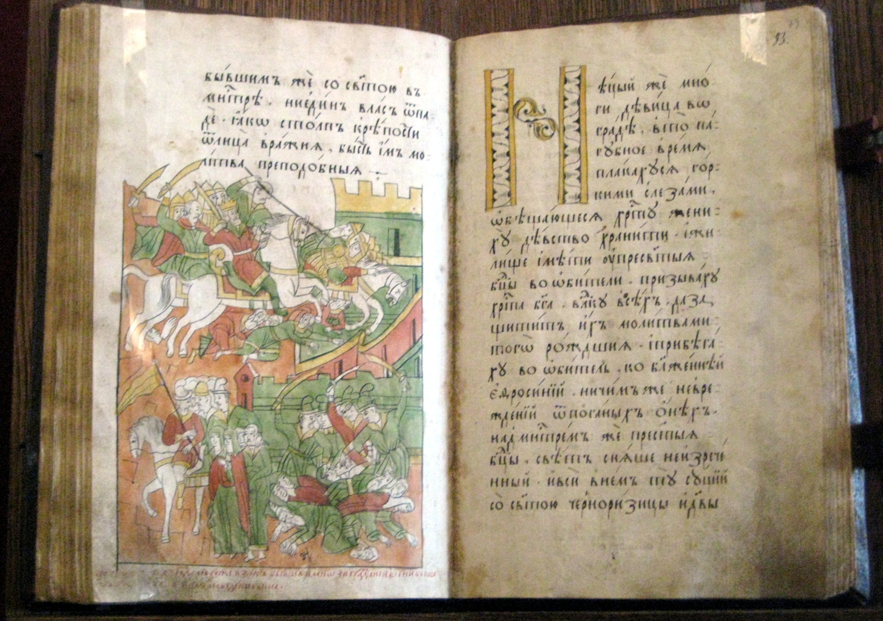 "The life of S.Ephrosinia", 18 century. Miniature of khan Batuy taking Suzdal in 1238